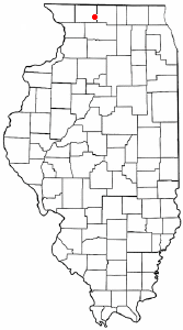 Category:Illinois city locator maps